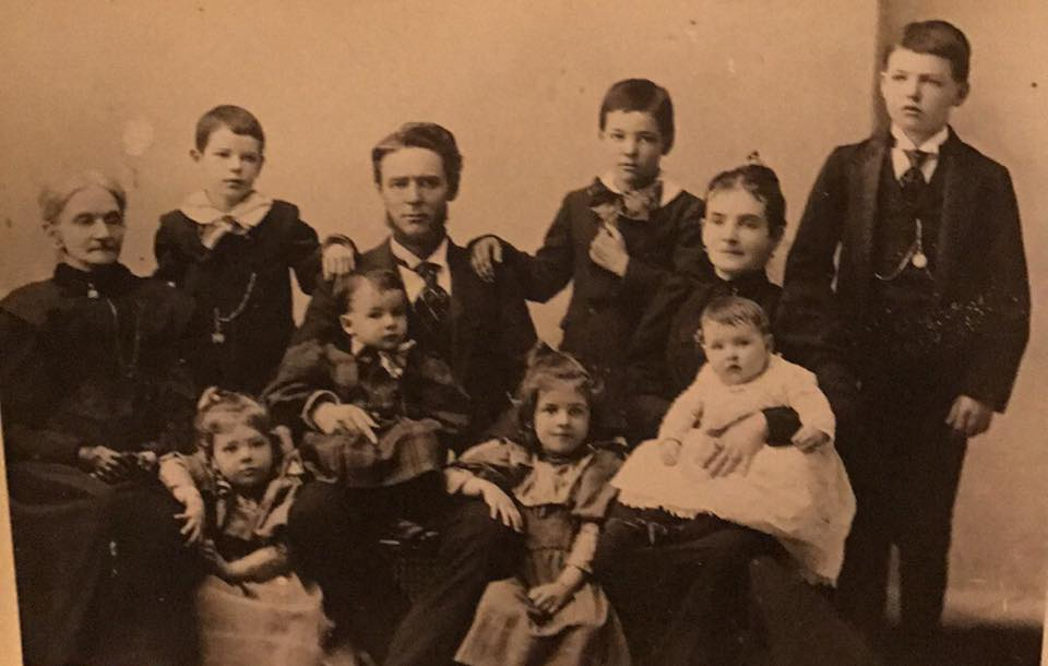 Sally Ann Griffith (nee Whitfield), widow of Brig. Gen. Richard Griffith, her son Benjamin Whitfield Griffith, Mayor of Vicksburg, MS, his wife Cora, and their seven children. Date approximated.